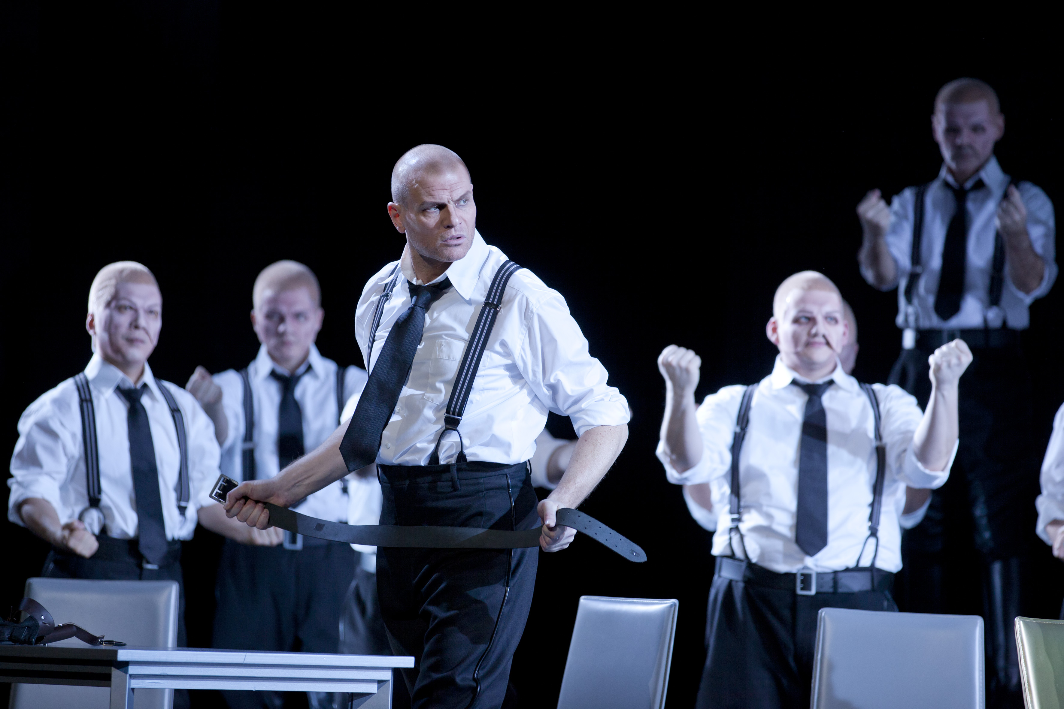 Production of Lear at Hamburgische Staatsoper 2012, stage photo: Bo Skovhus as King Lear (center), Choir of the Hamburgische Staatsoper as Lear's and Gloucester's retinue (behind Lear with face masks).